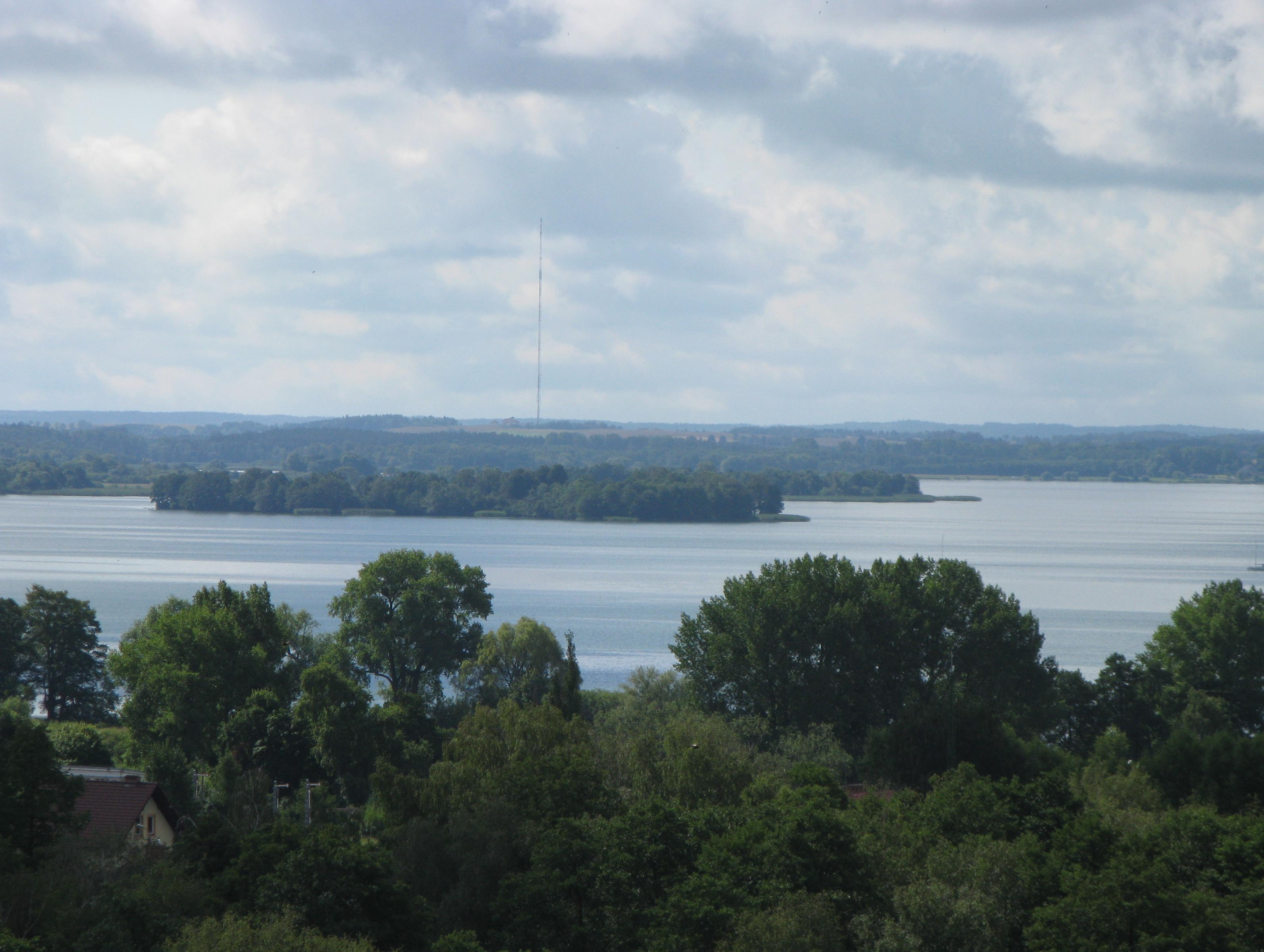 Niegocin Lake view from water tower in Giżycko. In the center radio mast in Miłki